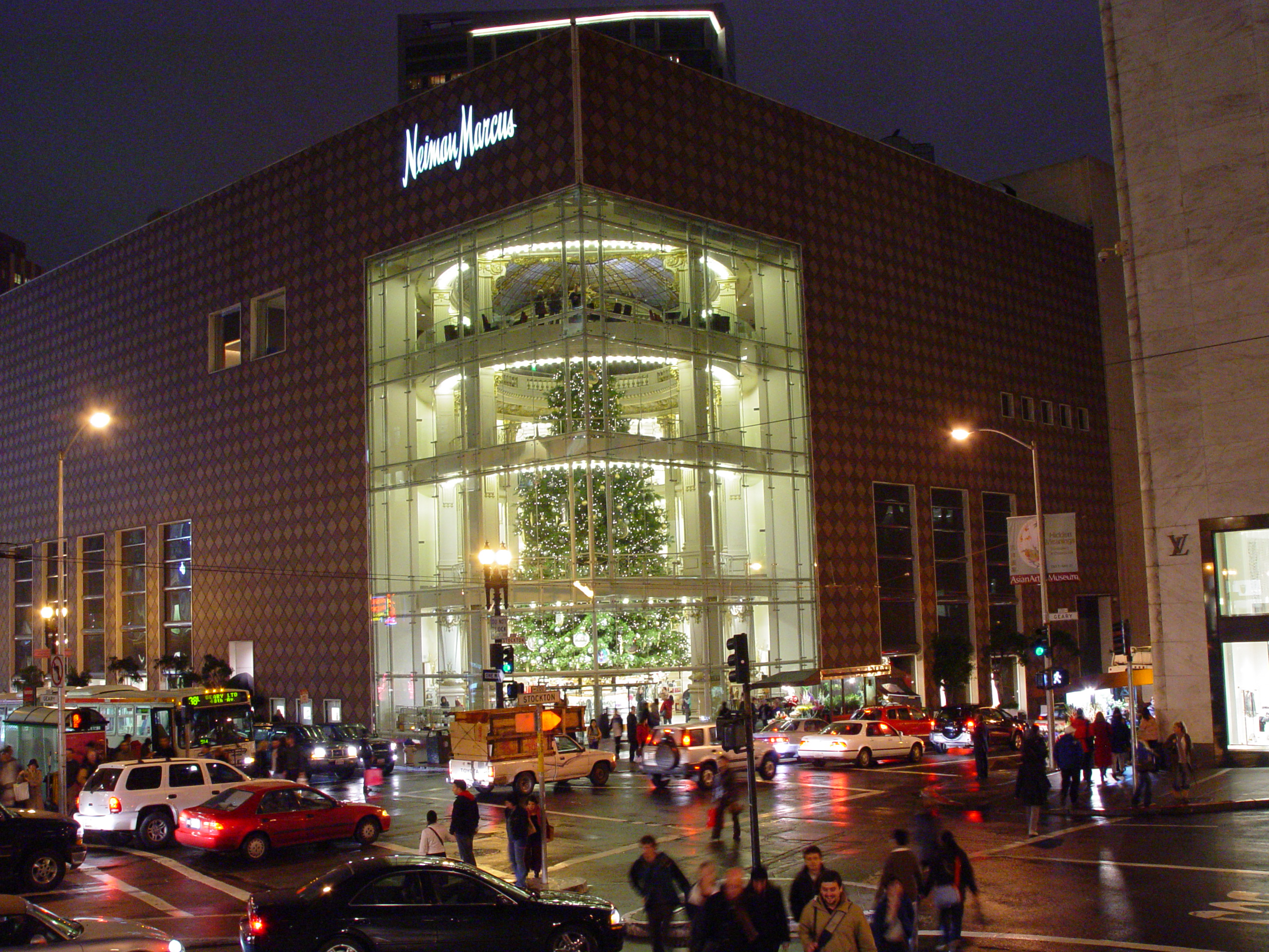 Neiman Marcus at Union Square, in San Francisco, CA